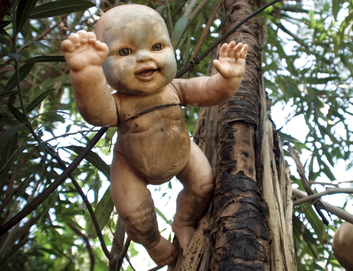 "Isla de las Muñecas", nearby the Xochimilco canals, México Distrito Federal.